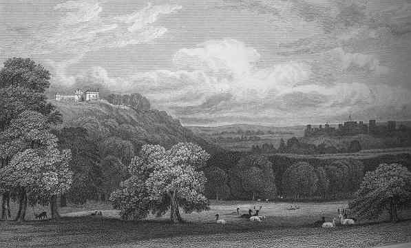 A distant prospect of Saint Leonard's Hill in Clewer, Windsow, Berkshire, England, UK, after 1773. It was the seat of Field Marshall William Harcourt, 3rd Earl Harcourt (20 March 1743 – 17 June 1830), and the place where he died. According to the source (p. 280 of the PDF; the pages of the book are unnumbered), "[t]he accompanying view is taken from a point in Windsor Forest, which was politely pointed out by the Countess of Harcourt. This view (which shows but little of the building) gives, perhaps, the best idea of its beautiful situation; showing, at the same time, the Town and Castle of Windsor, with the surrounding Country." The original house was expanded by Maria Walpole, the Countess Dowager of Waldegrave. Following her marriage to Prince William Henry, Duke of Gloucester and Edinburgh, in 1766, the house was generally known as Gloucester Lodge. In 1781 His Royal Highness sold the property to John Macnamara who did not reside there, and Macnamara resold it in March 1783 to General Harcourt: p. 279 of the PDF. The site later formed part of Windsor Safari Park and is now within Legoland Windsor Resort.